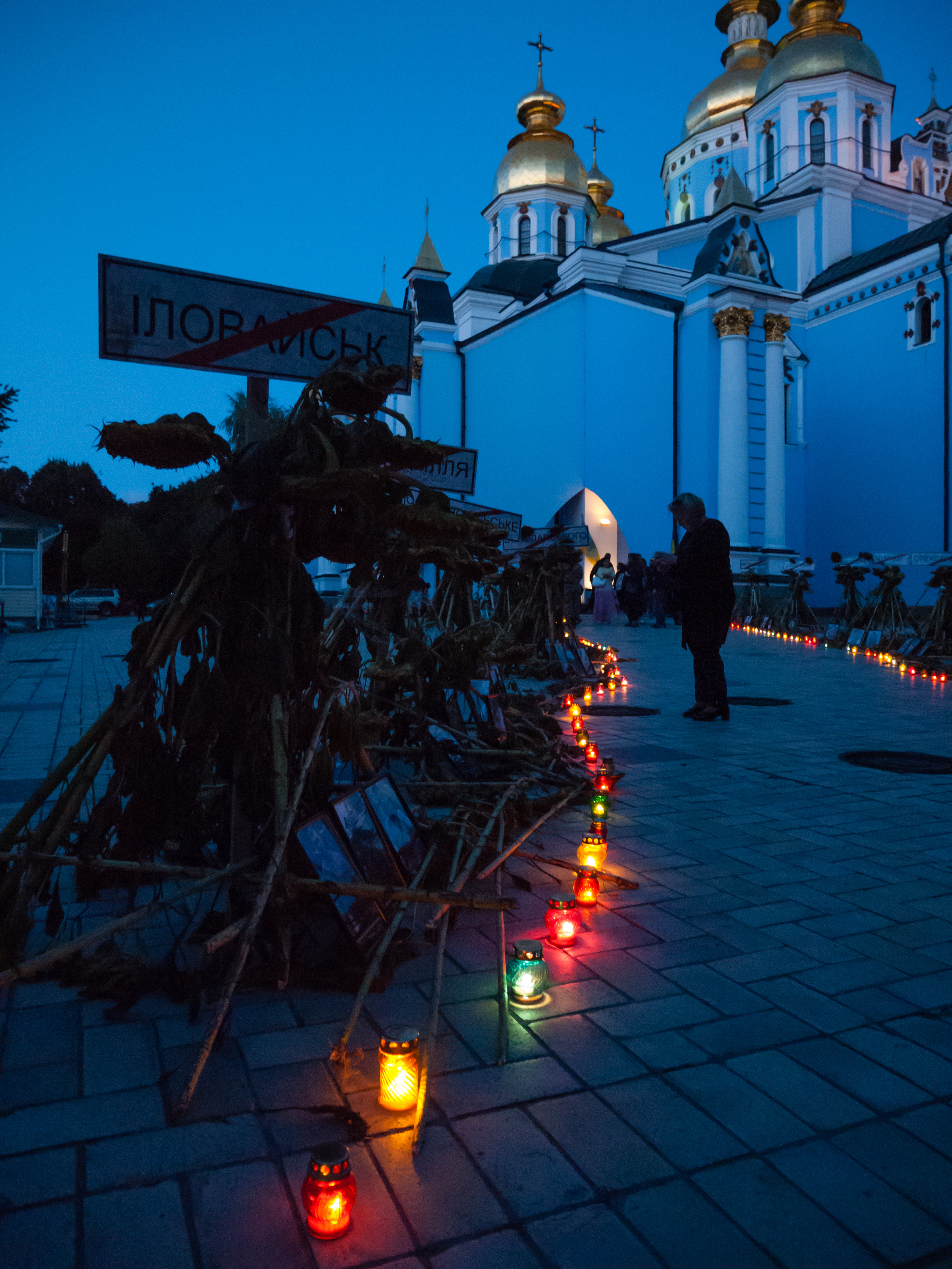 Blokpost Pamyati exhibition, a tribute for Battle of Ilovaisk (2014). 2017